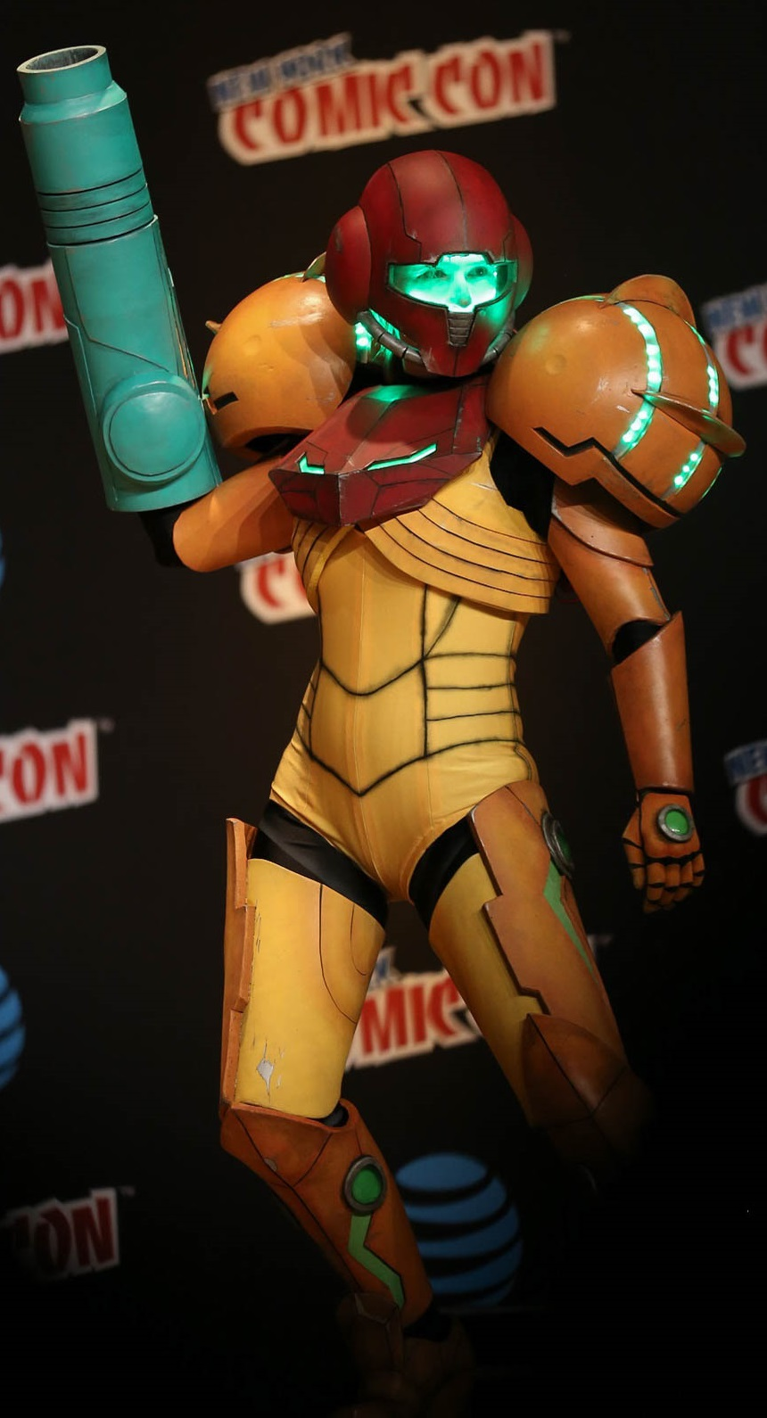 Victoria Miller cosplaying as Samus Aran (from Metroid) in the Eastern Championships of Cosplay contest at the 2016 New York Comic Con.